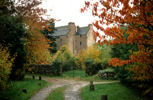 Tilquhillie Castle. Z-plan castle built in 1576 for John Douglas.After passing through many owners it became semi derelict, but has since been restored and occupied.